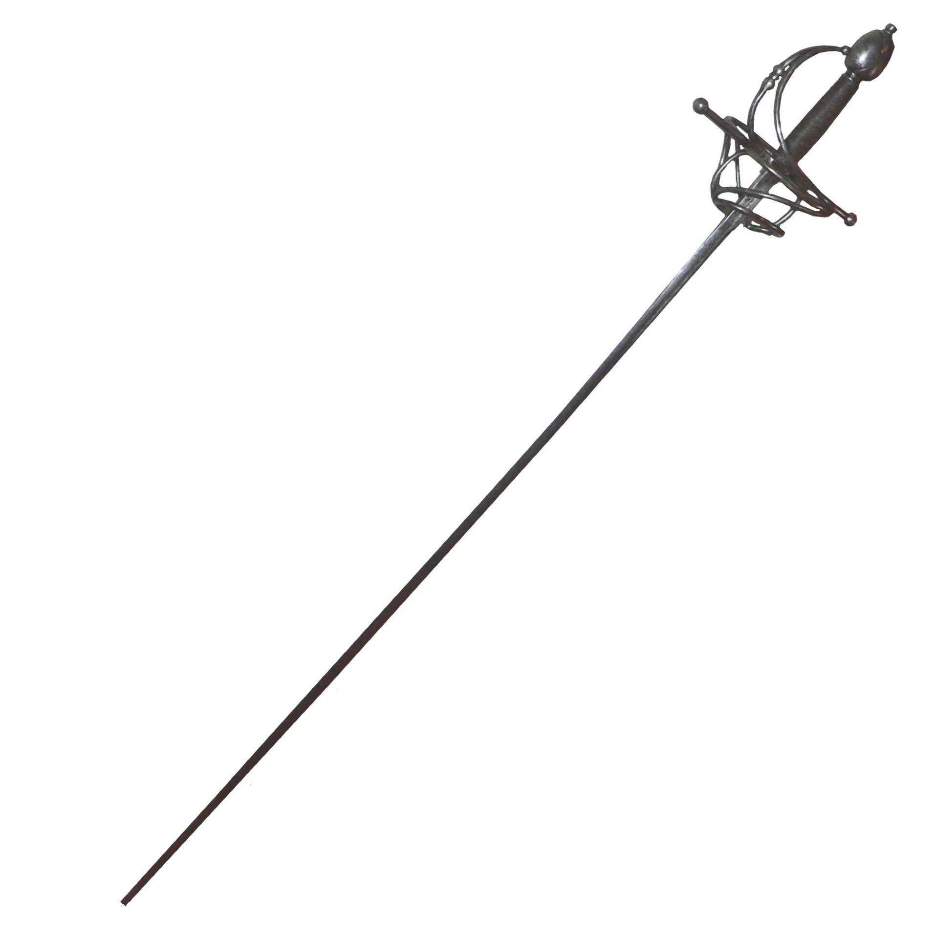 Rapier, first half of the 17th Century. Morges Museum, Switzerland.